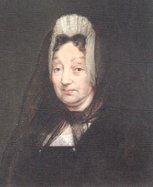 Portrait of Anna Katharina von Offen (1624-1702)